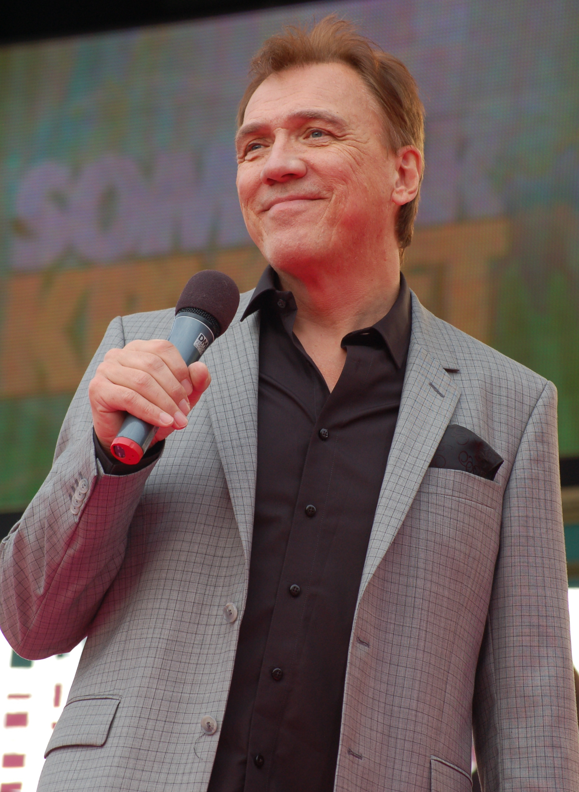 Christer Sjögren at Gröna Lund, Sommarkrysset